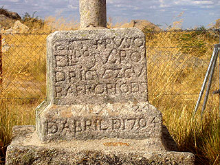 Stone cross in the borderline with Mingorría.